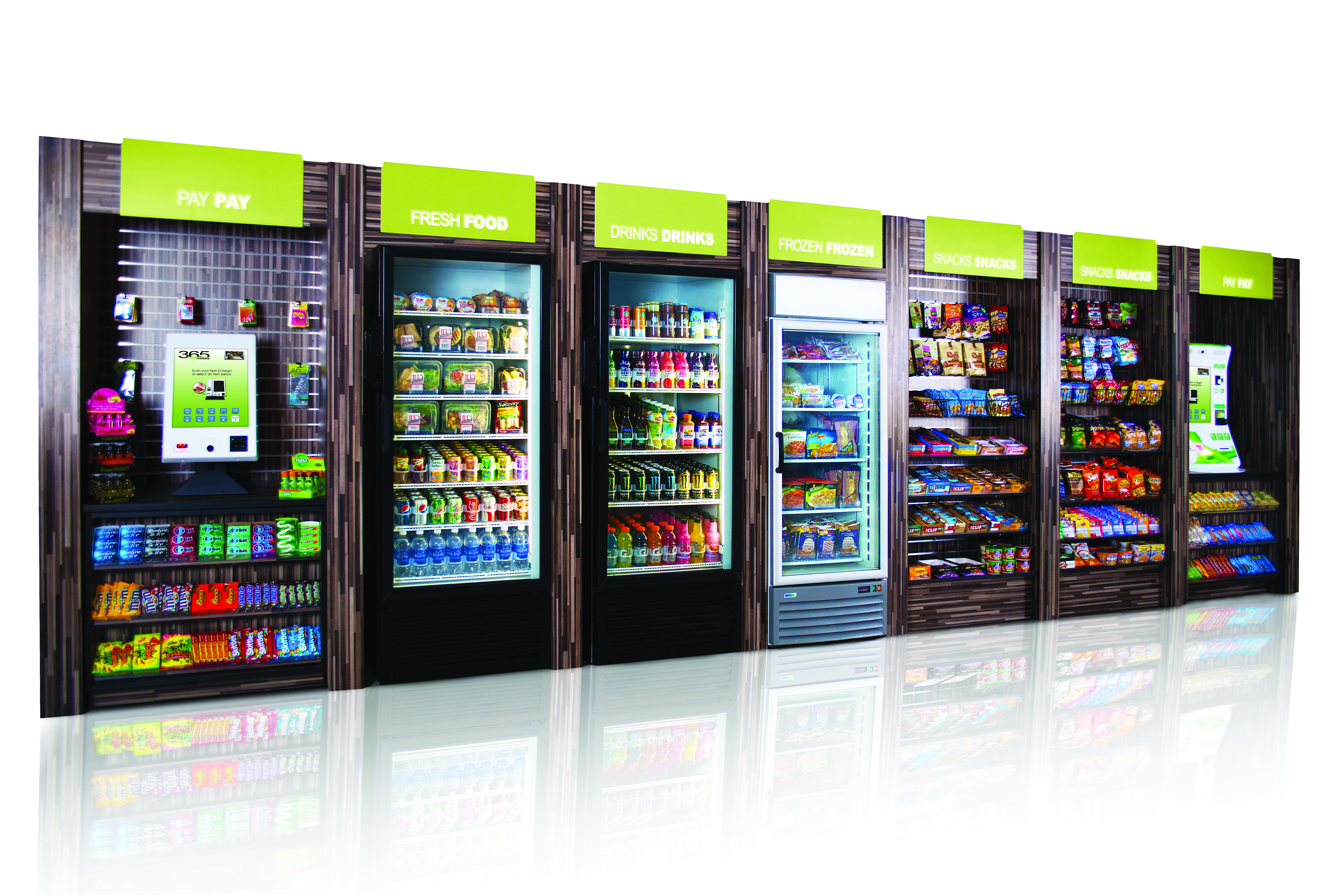 MicroMarket with 365 Retail Markets self-checkout technology. A typical MicroMarket has traditional snacks and beverages, as well as fresh and frozen foods, gluten-free, and more.